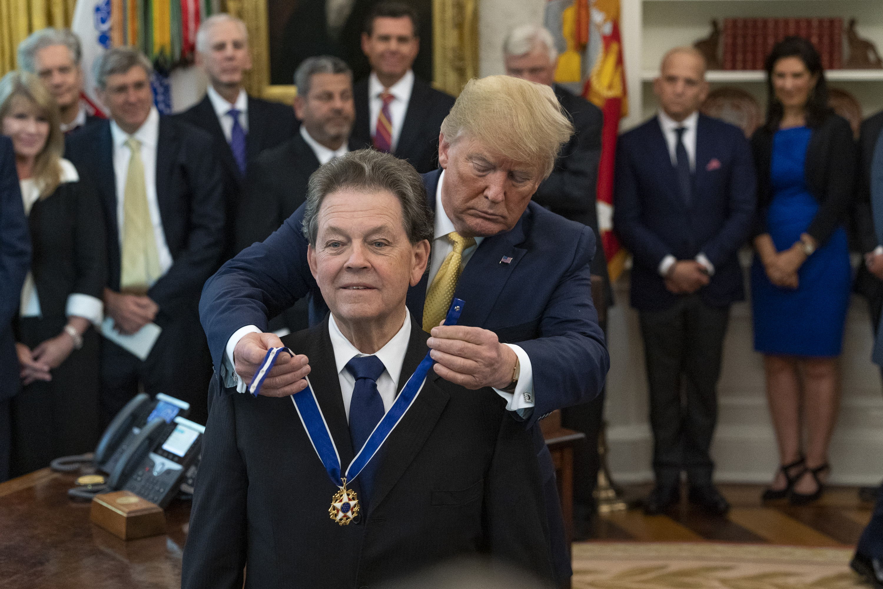 President Donald J. Trump presents the Presidential Medal of Freedom to economist Arthur B. Laffer, the “Father of Supply-Side Economics" Wednesday, June 19, 2019, in the Oval Office of the White House. (Official White House Photo by Joyce N. Boghosian)